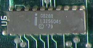 Intel 8288 bus controller, used in the motherboard of the original IBM PC.